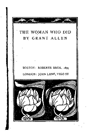 Abracadabra 4.2 Ko only Cover of The Woman Who Did by Grant Allen (24 February 1848 - 25 October 1899)